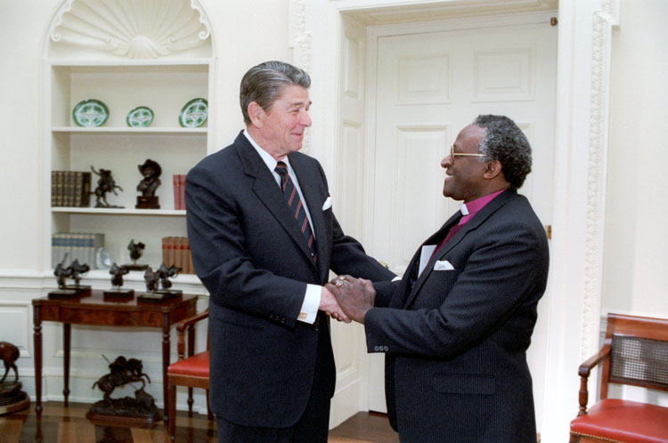 12/7/1984 President meeting with Bishop Desmond Tutu of Anglican Church of South Africa in oval office